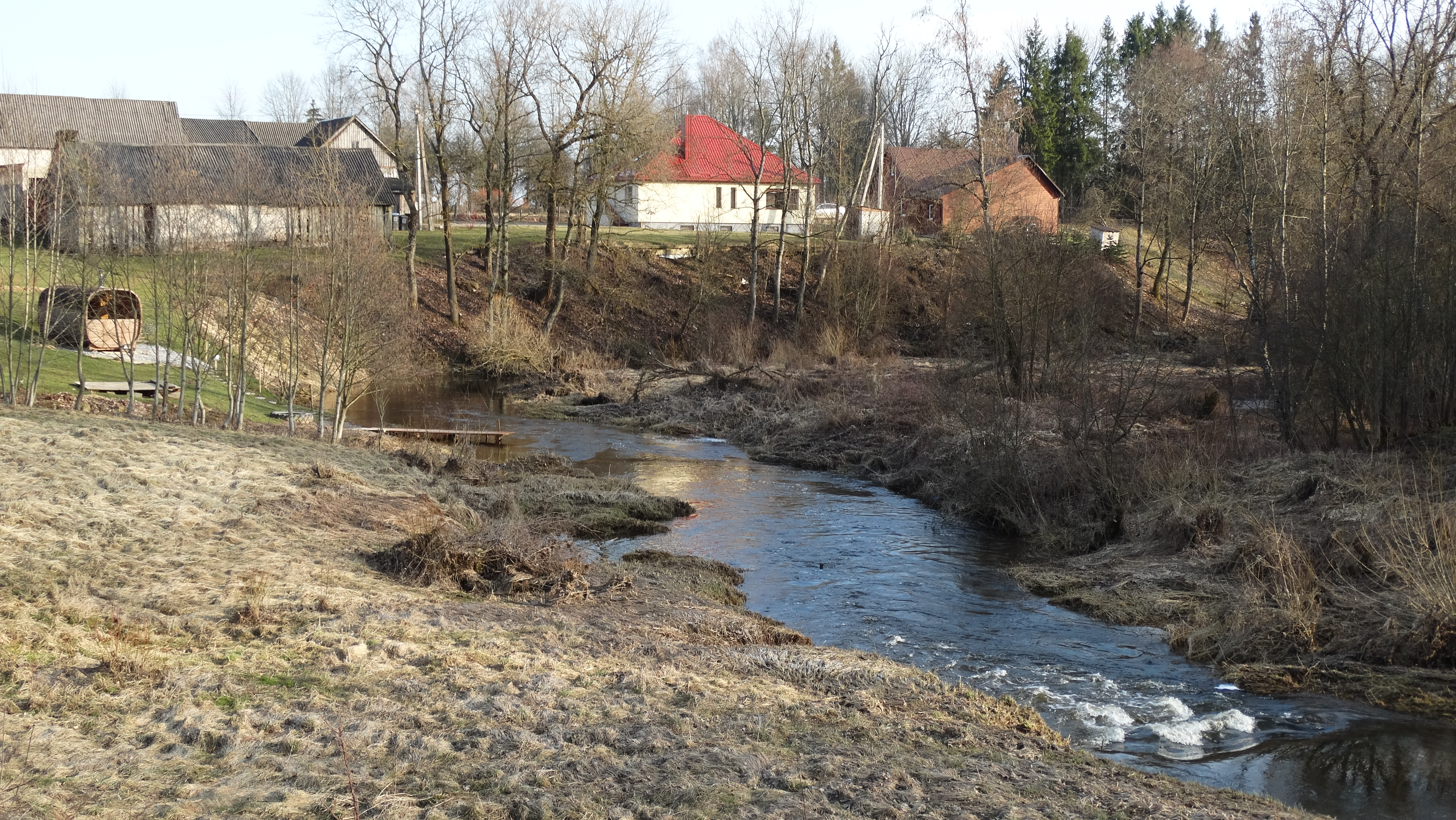 Mituva River in Stakiai, Jurbarkas district, Lithuania